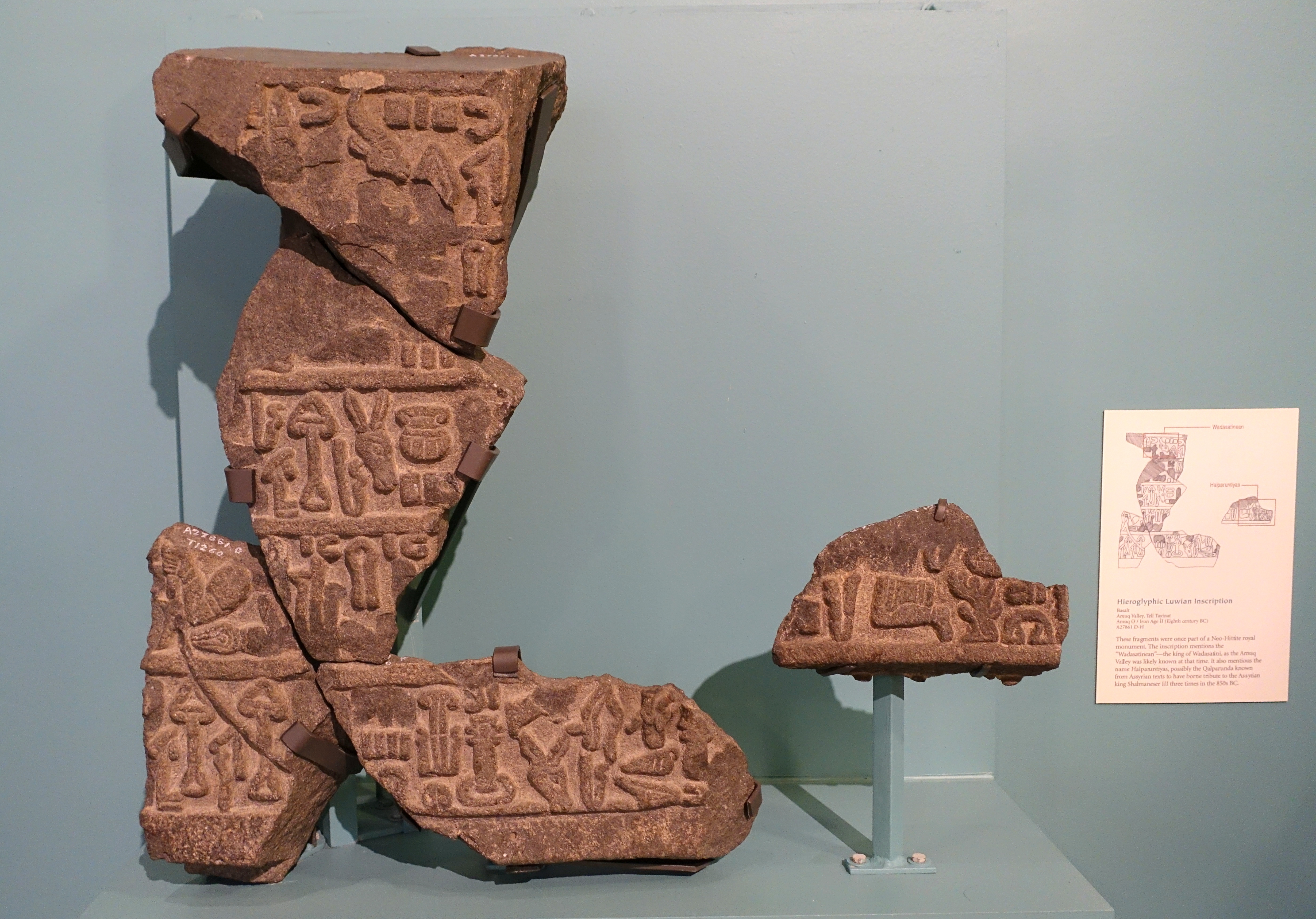 Exhibit in the Oriental Institute Museum, University of Chicago, Chicago, Illinois, USA. This work is old enough so that it is in the public domain.